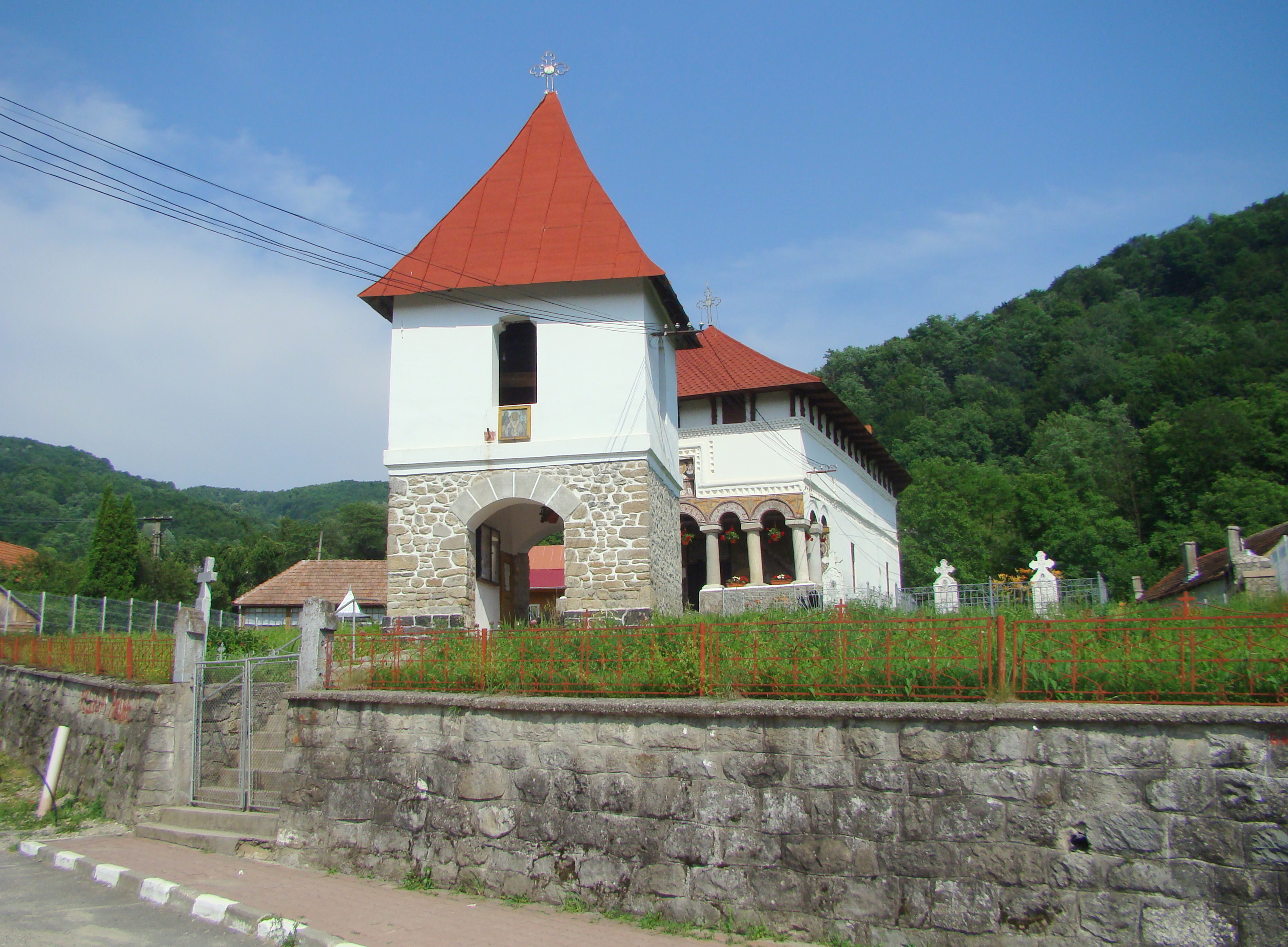 Saint Nicholas church in Olănești, Vâlcea county, Romania